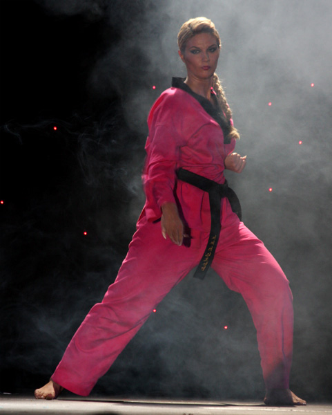 Miss Denmark 2008 Lisa Lents performing in the talent show in Miss World 08